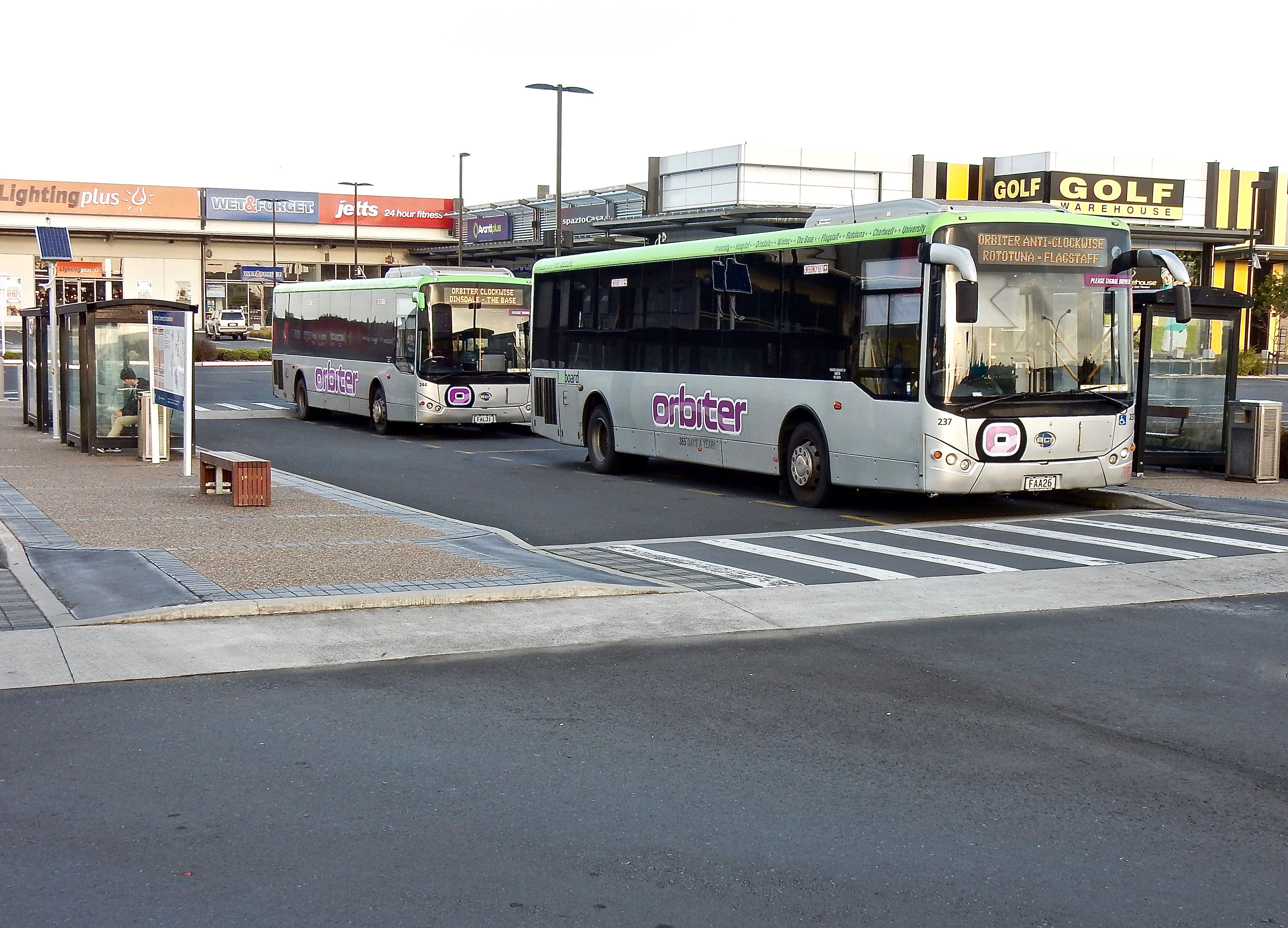 2009 39 seat BCI Orbiter buses at The Base (shopping centre)